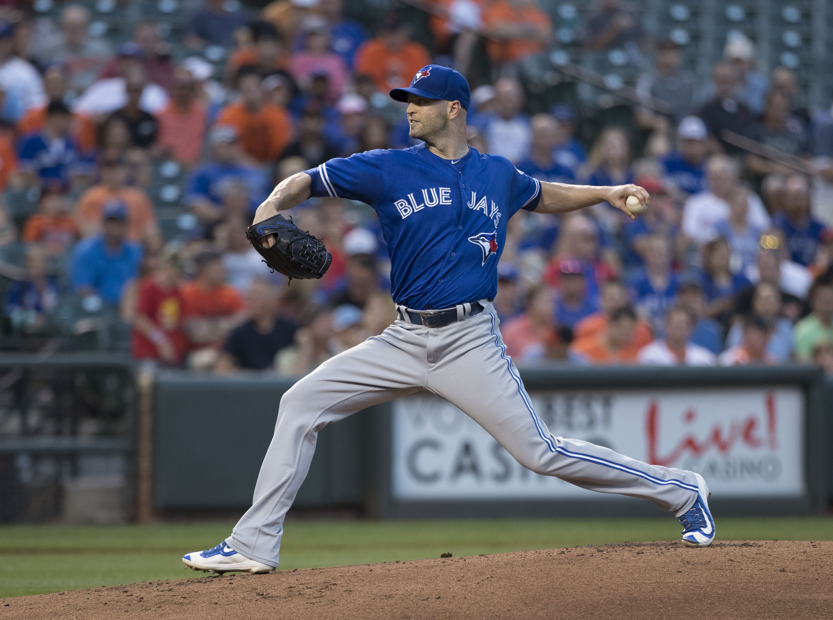 J. A. Happ on August 30, 2016